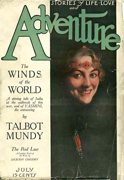 Cover of Adventure, vol. 10 no. 3 (July 1915).